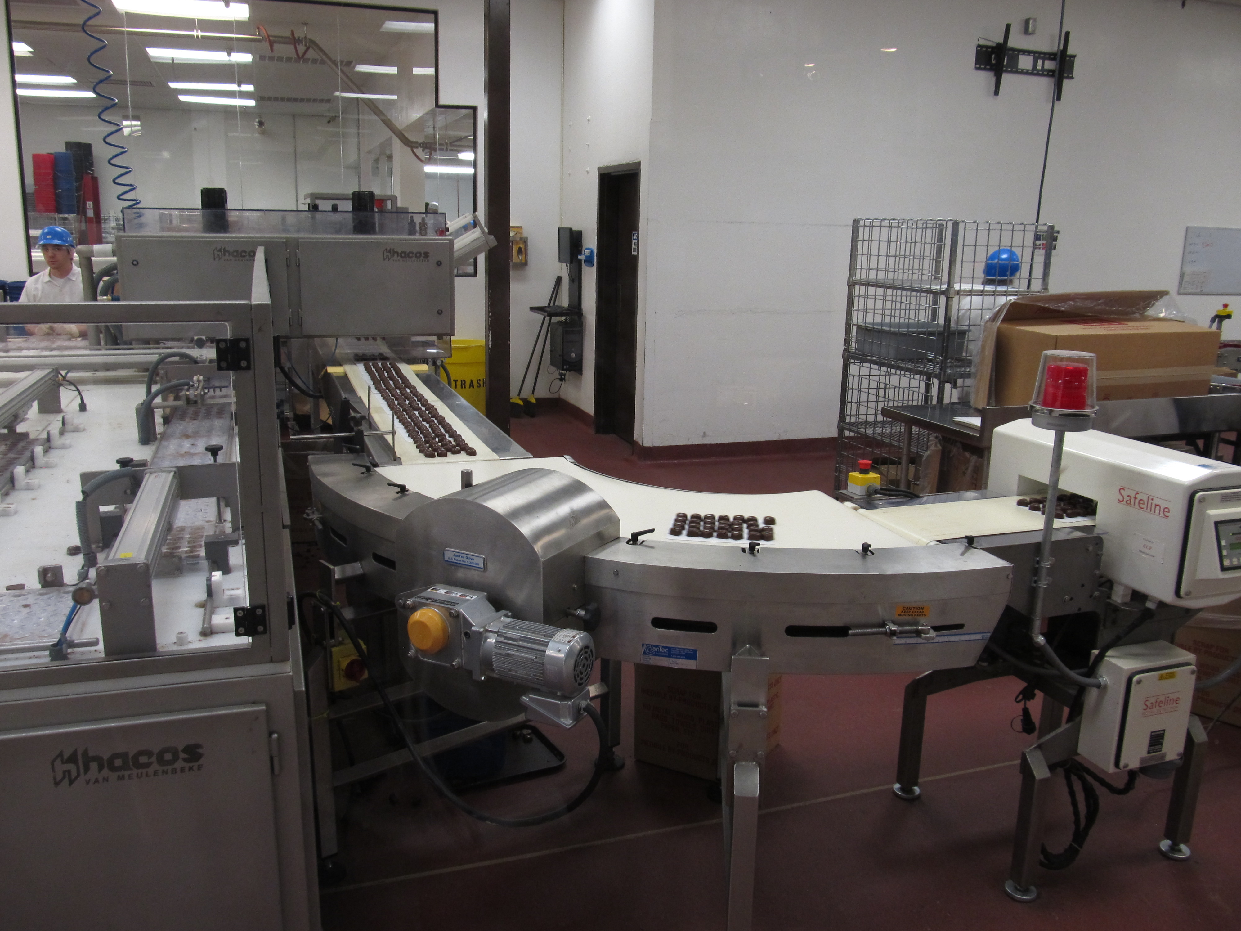 The Ethel M Chocolate Factory is located in Henderson, Nevada and continues to produce gourmet premium chocolate for all of the Ethel M and Ethel's brand chocolates. The company distributes their products mainly via phone and internet on their website, although they also operate several retail outlets located in and around Las Vegas, Nevada. Also located at this plant are the Ethel M Botanical Cactus Gardens (which feature over 300 species of desert plants), and a small branch of M&M's World. A part of the factory is open to the public and visitors can take self-guided tours. Customers who visit the Ethel M Chocolates factory and cactus garden are welcome to take a free self-guided tour of the botanical cactus garden and gourmet chocolate factory to learn about premium chocolate making and the traditions of Mars Inc. chocolate making. The botanical cactus garden is also host to several community events throughout the year, including the Cactus Lighting Event hosted every November. Ethel M is owned by Mars, Incorporated and was named after the mother of Forrest Mars, Sr.